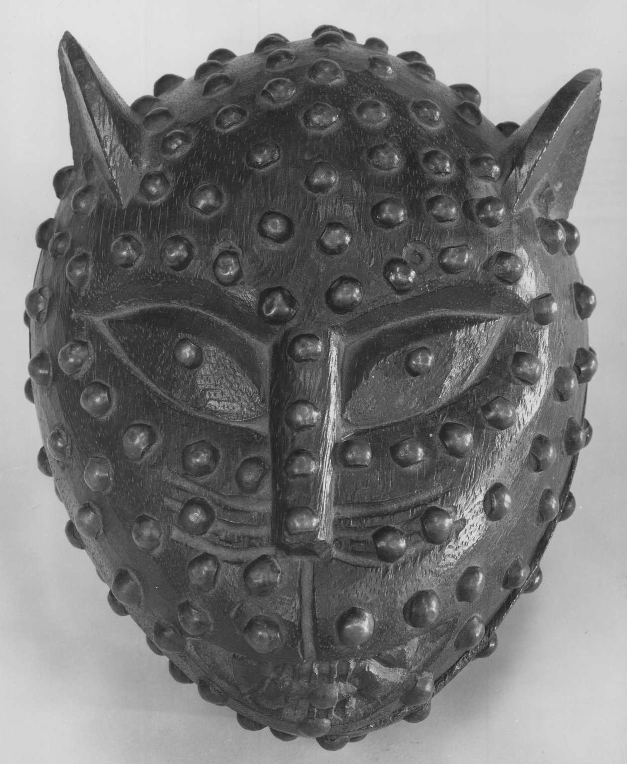 Box in form of feline head, wood with metal tacks over surface, ears protrude, teeth and fangs represented. Condition: generally good, slightly chipped.